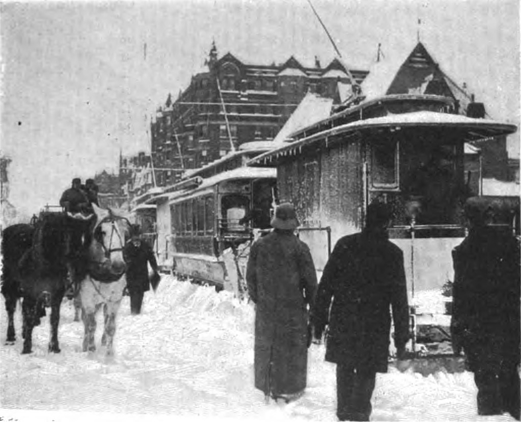 Snow around train from a blizzard in Boston, during November 26-27, 1898.